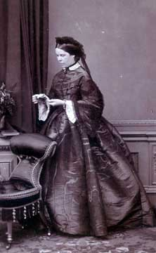 A Photograph of Lady Augusta Stanley, nee Bruce, from the Westminster Abbey Library, Langley Collection: Portraits 999.